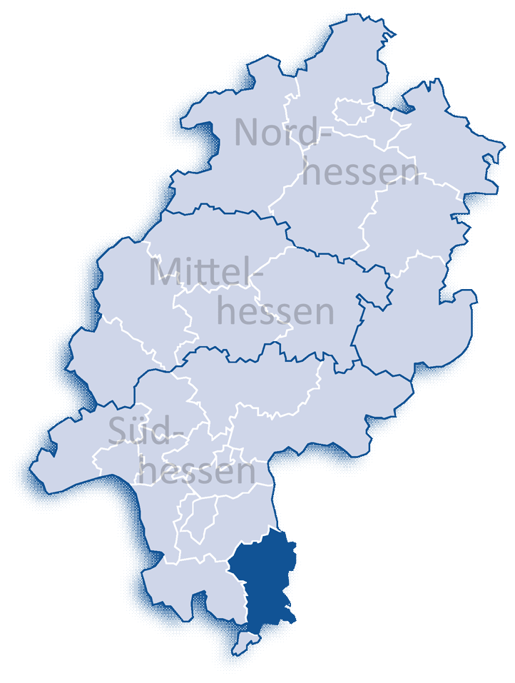 The map shows Odenwaldkreis a district in Hesse